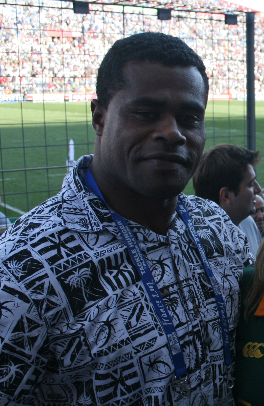 Fijian rugby union player Isoa Neivua after 2007 Rugby World Cup quater-final against South Africa, that took place in Marseille.